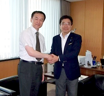 Jun Ishikawa, Chair of the Commission on Policy for Persons with Disabilities, Cabinet Office, met Katsunobu Katō, Minister of State for Gender Equality, on July 29, 2016.